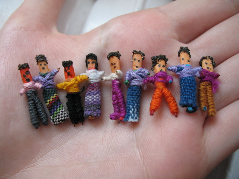 An assortment of Guatemalan worry dolls made from wire, paper and cotton fabric and thread, with hand-drawn faces.